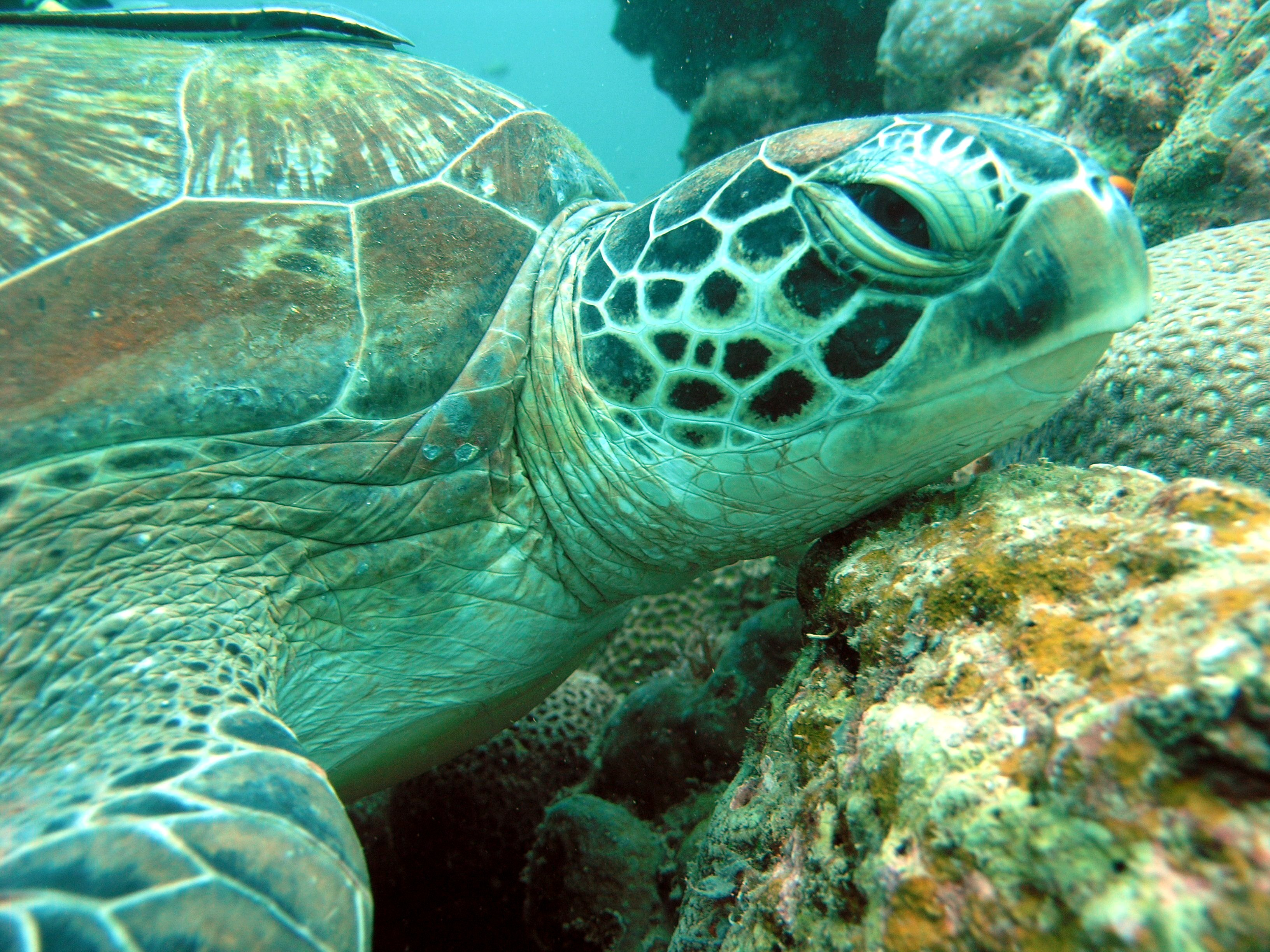 Image of Green sea turtle. Chelonia mydas. Taken at Sipadan, Borneo, Malaysia.